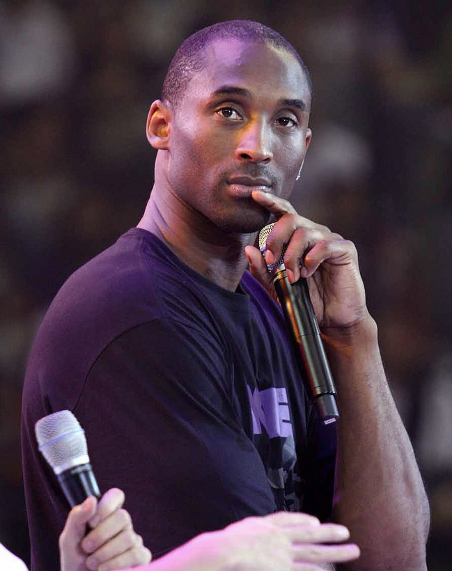 Kobe Asia Tour 2009 at the ULTRA, Manila, Philippines July 21, 2009